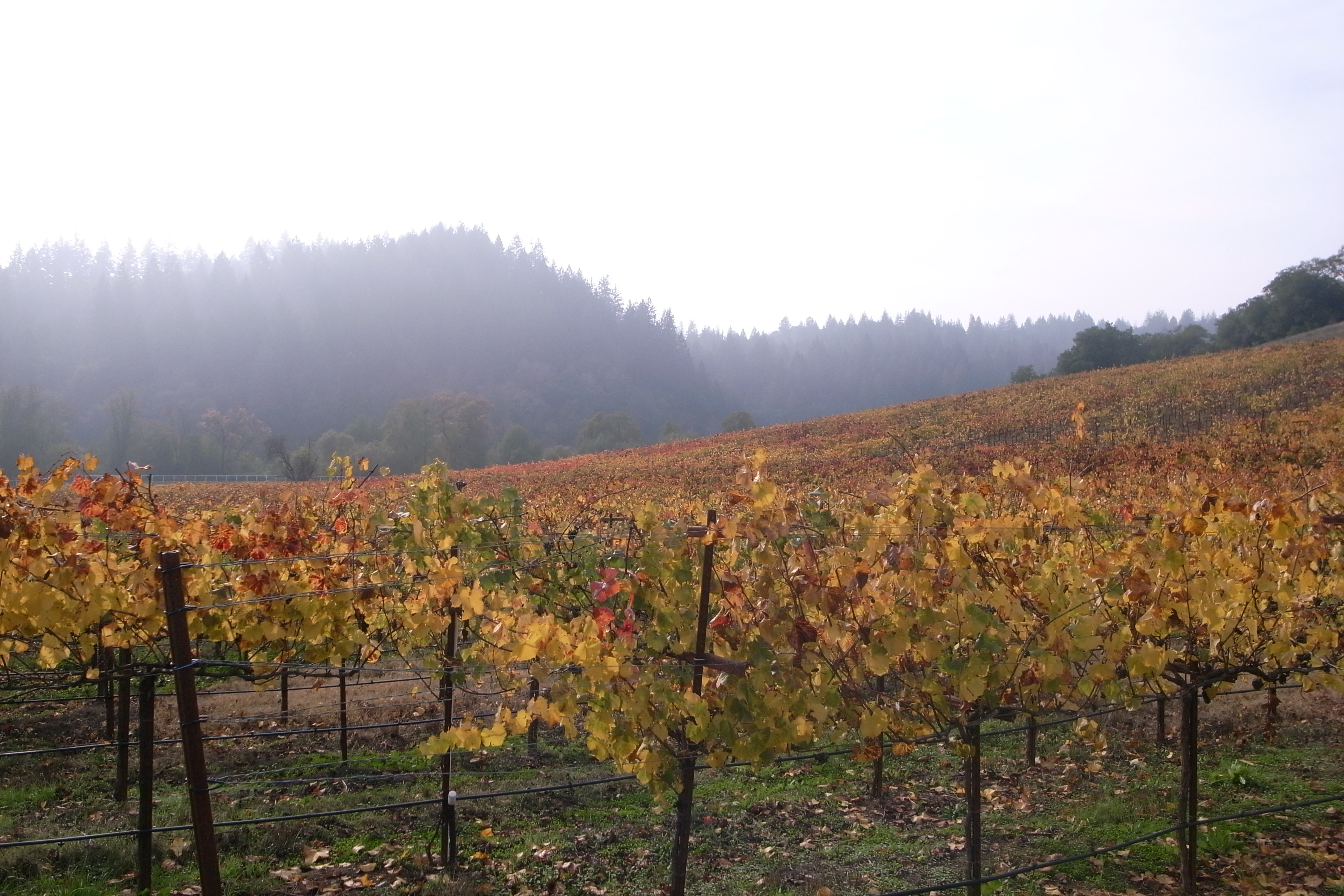 Vineyard in the California wine region of the Russian River Valley in Sonoma